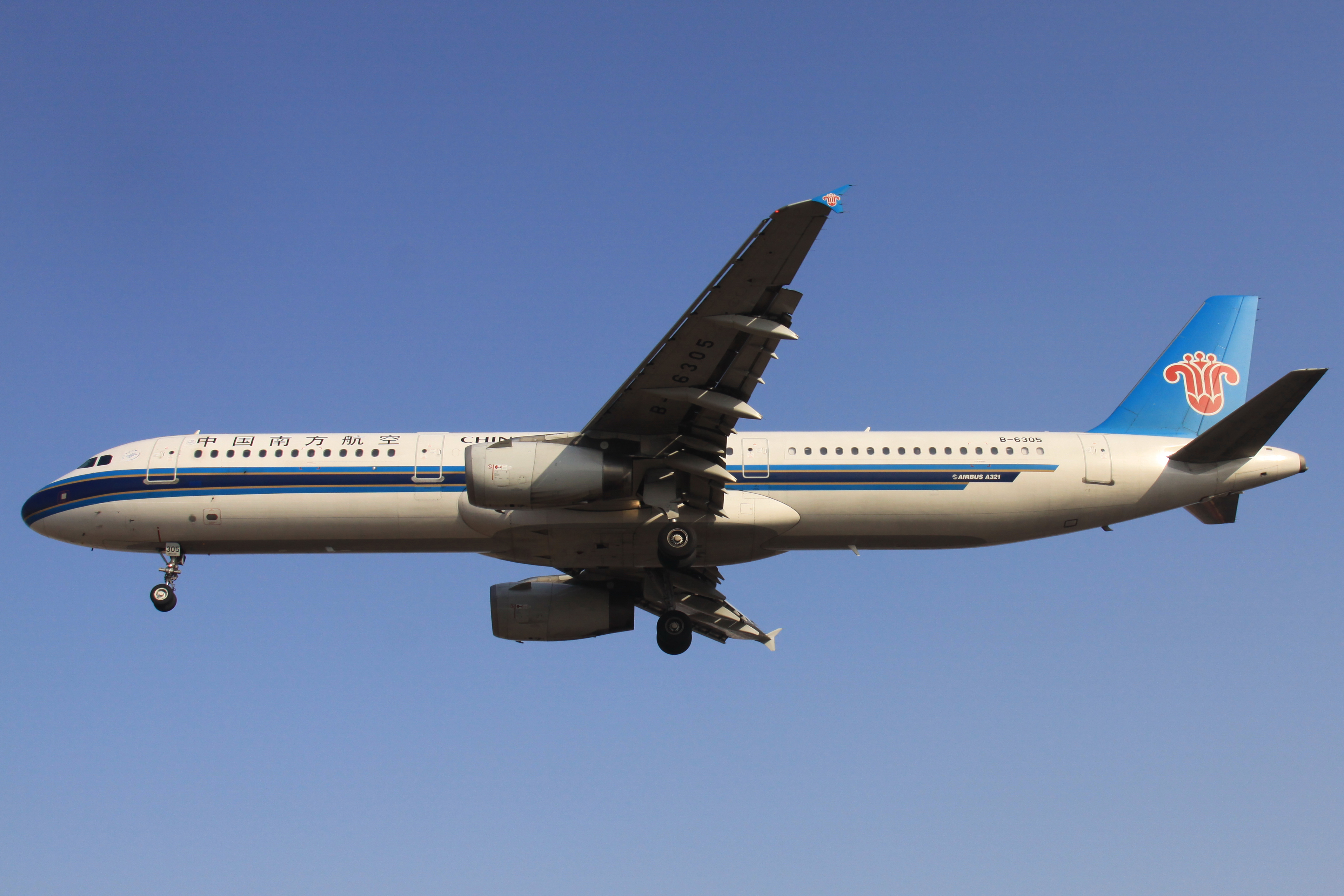 Final Approach to Dalian Airport Runway 28, Airbus A321-231, c/n:2971, China Southern Airlines